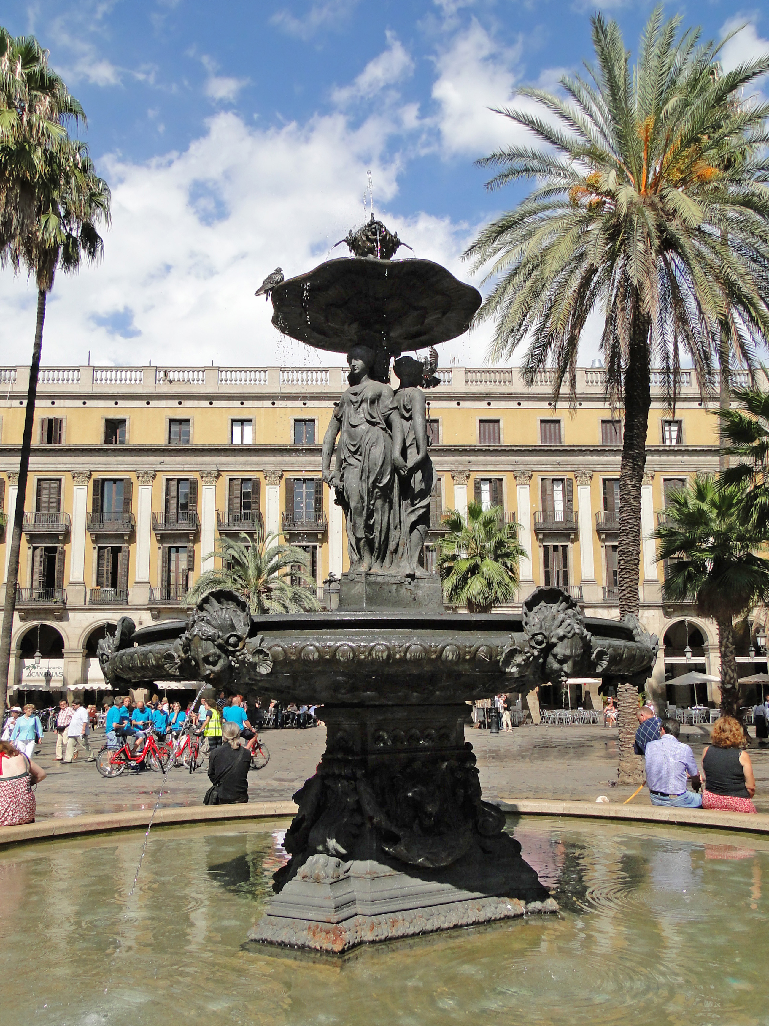 Fountain in Plaça Reial, Barcelona, Spain. Architect Antoni Rovira i Trias (1876)